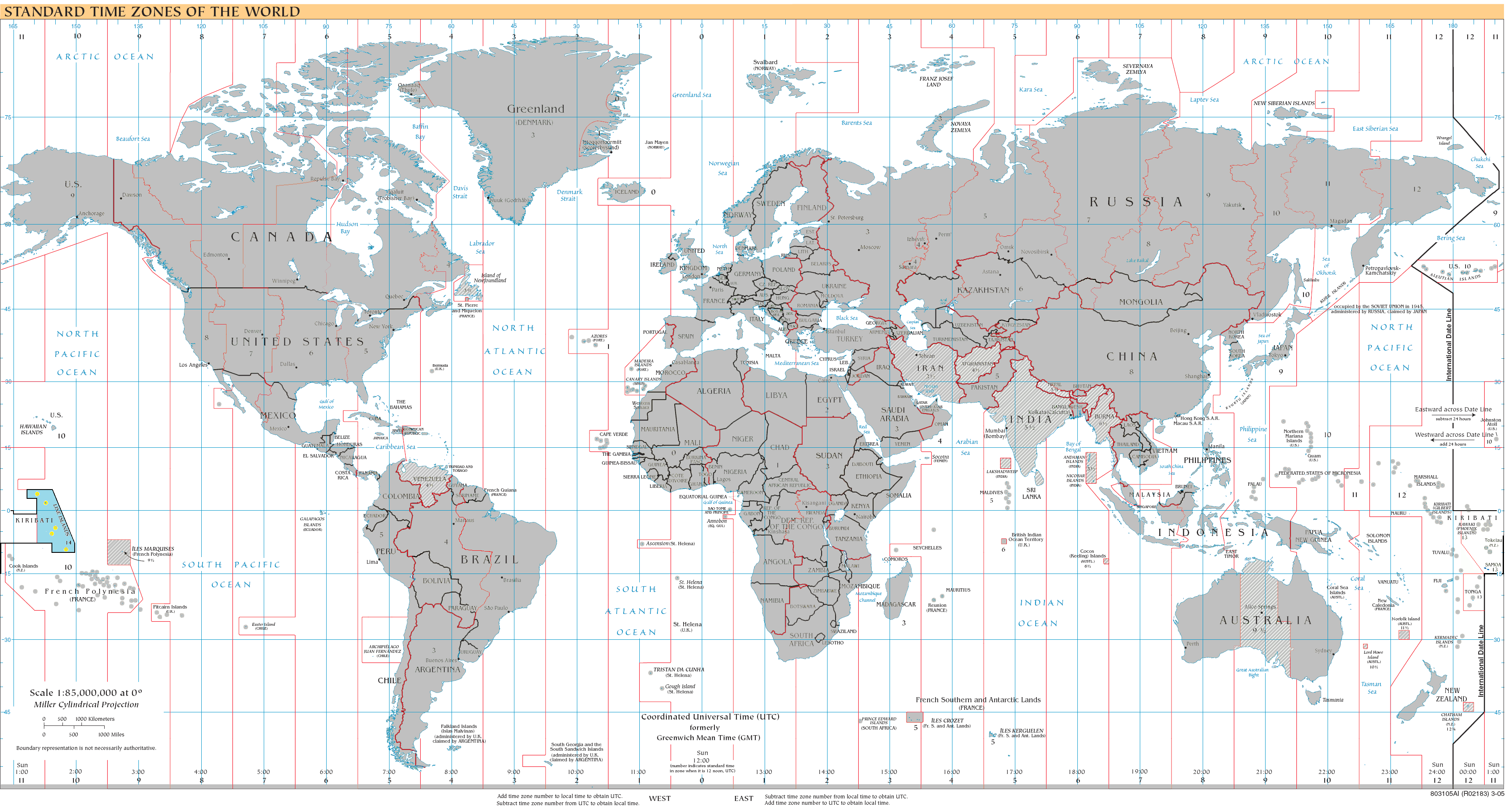 World map of time zones as of 2008, on the Miller Cylindrical Projection and with highlighted UTC+14 zone.